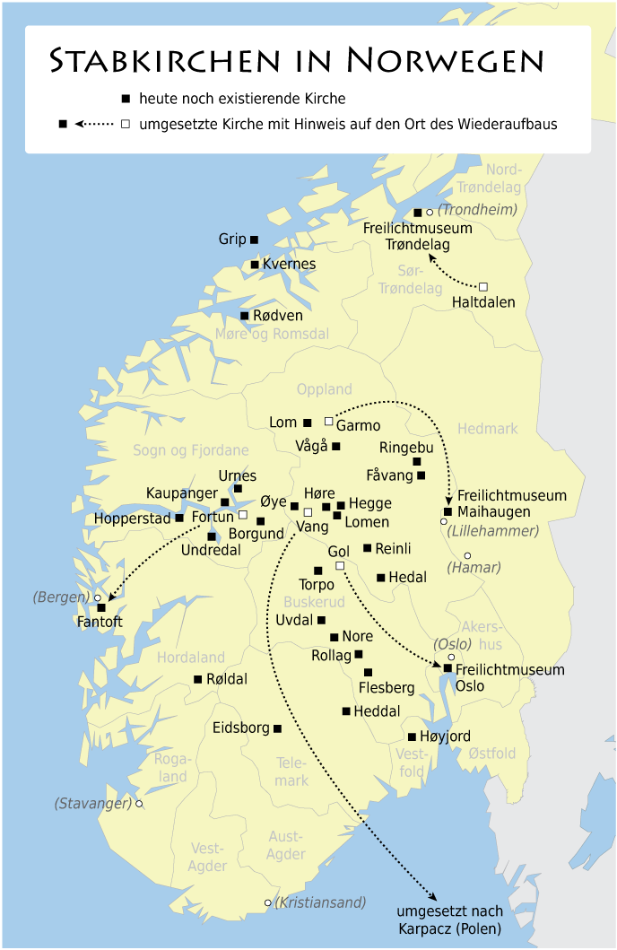 Map of the stave churches of Norway